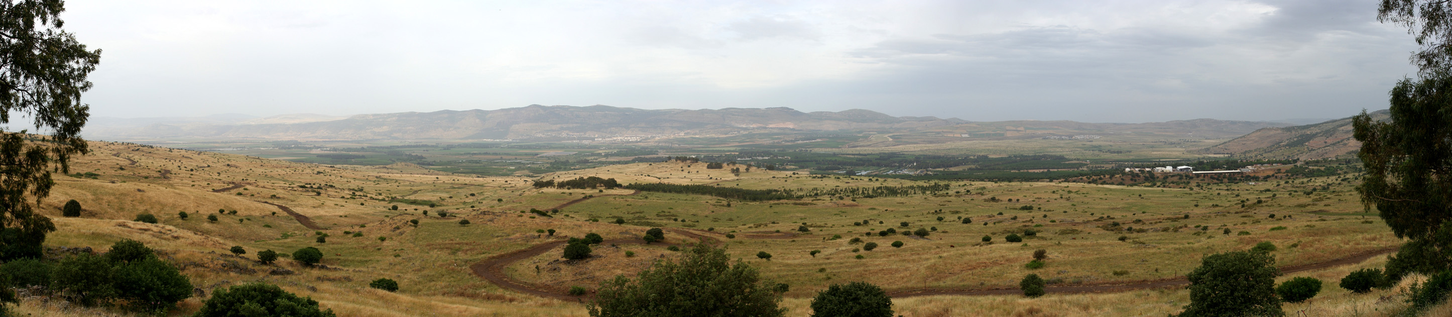 Panorama from Tel Faher, Golan Heights. Photo by beivushtang